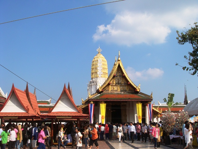 Wat Phrasri Rattana Mahathat Vora-Maha-Vihara, also known as Wat Yai, Phitsanulok.